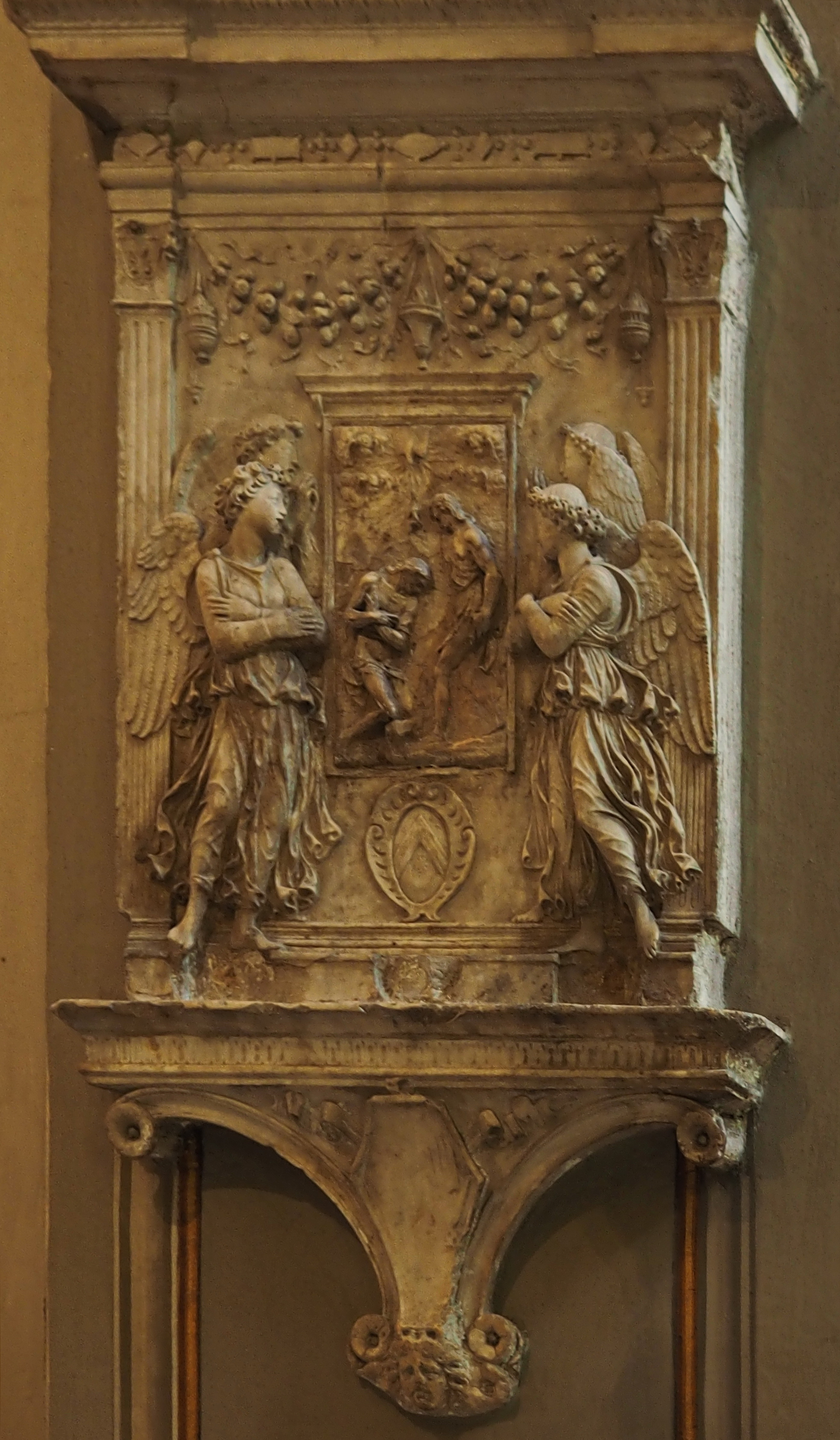 Tabernacle, Santa Maria in Monserrato, Rom